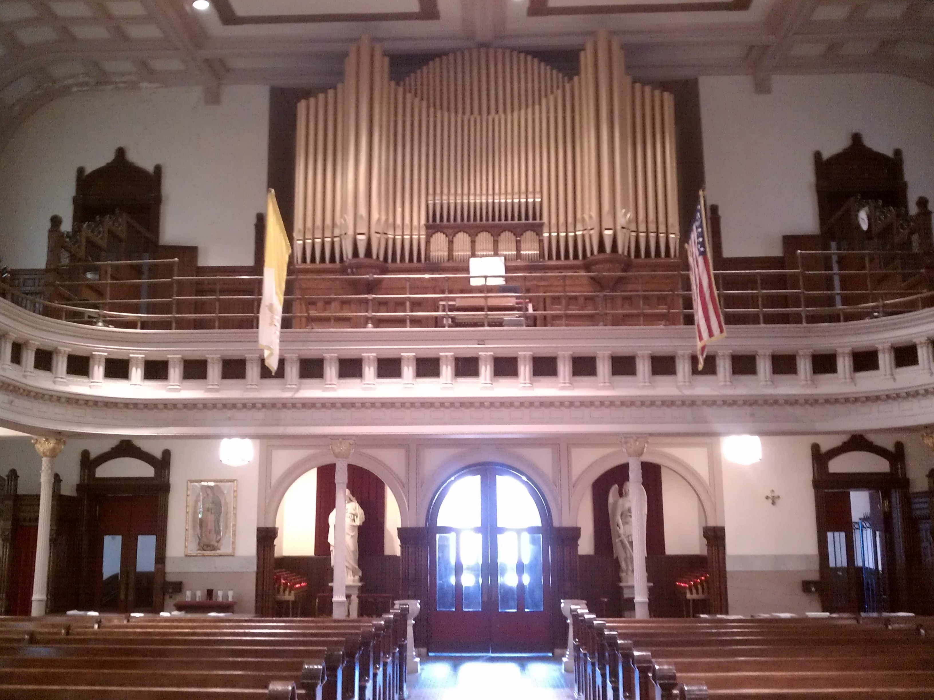 View of rear of St. Michael's Church 19122 showing the choir loft and organ with the American and Papal flags.